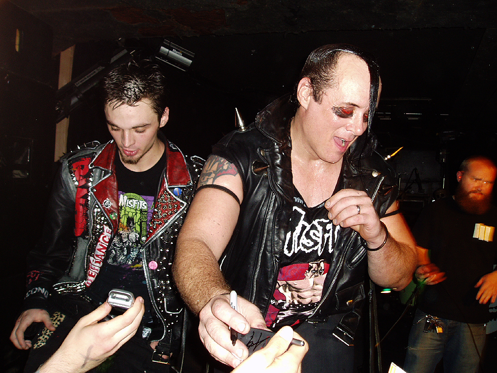 Misfits signing autographs